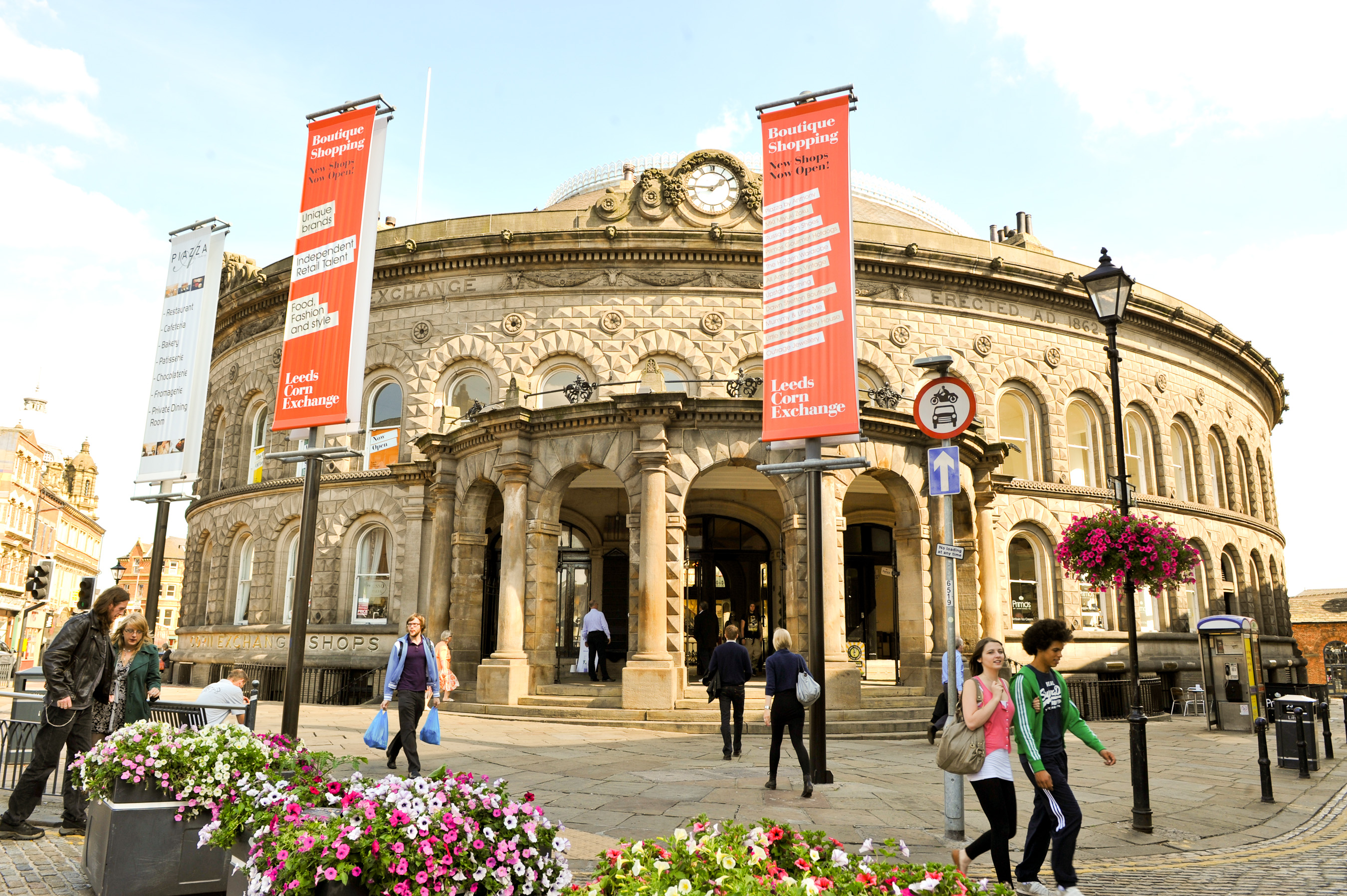 Built in 1862, opened on 28th July 1863.